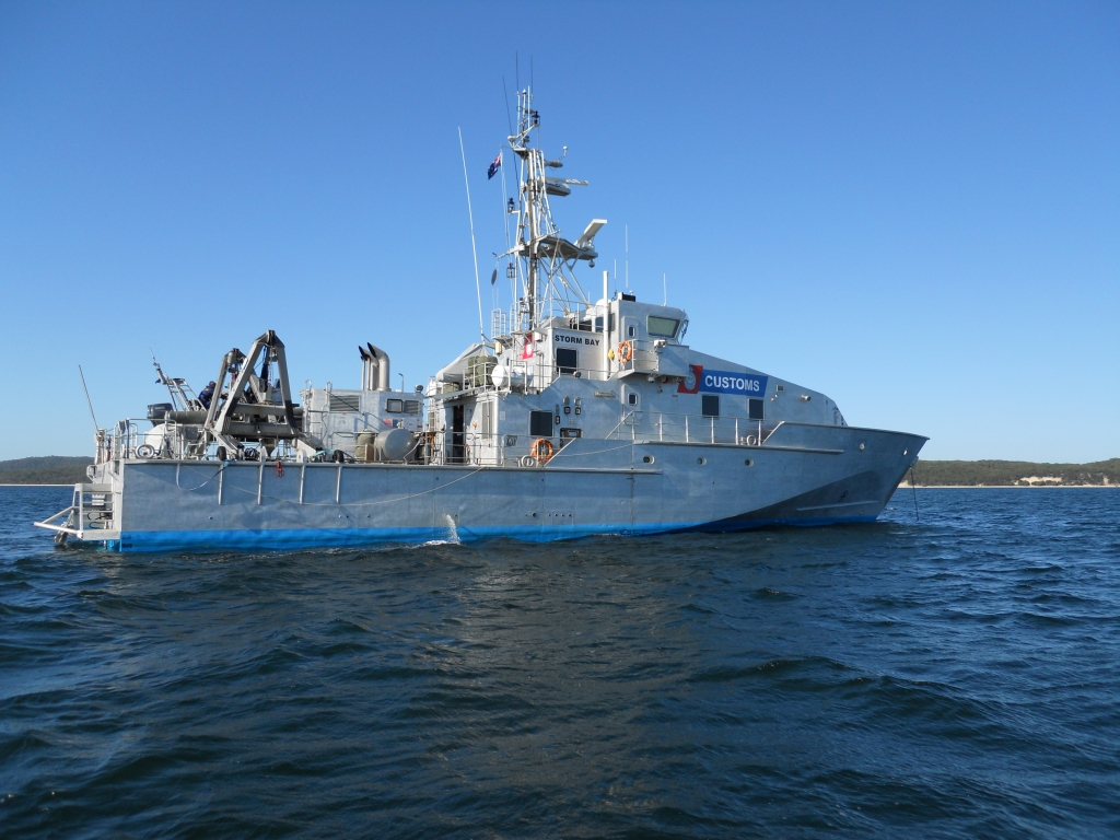 Australian Customs Vessel: Storm Bay (Bay Class Patrol Boat)